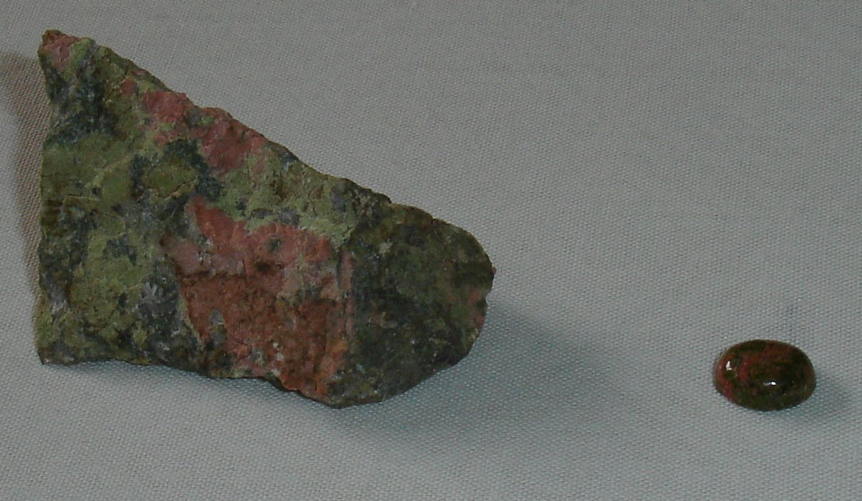 Specimen of mineral Unakite (rough and cabochon)